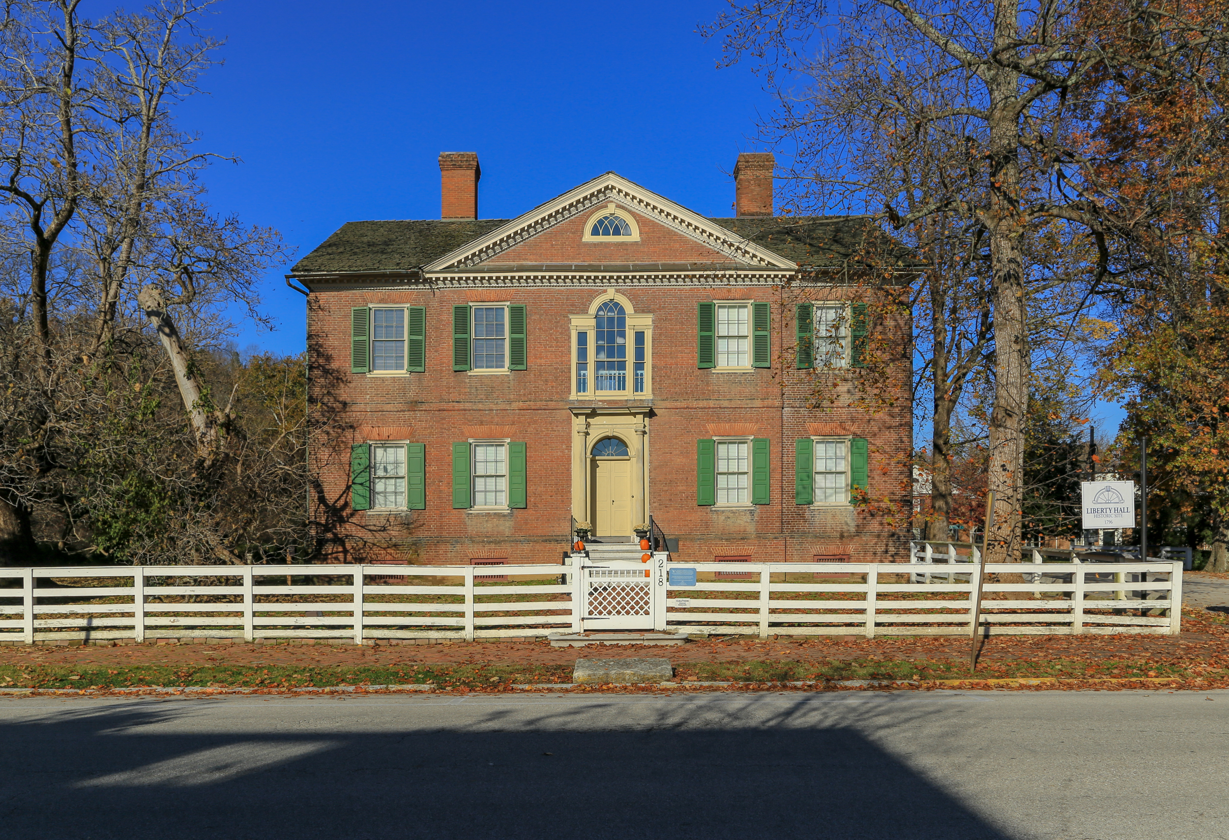 Front view of Liberty Hall, built in 1796 in Frankfort, Kentucky.